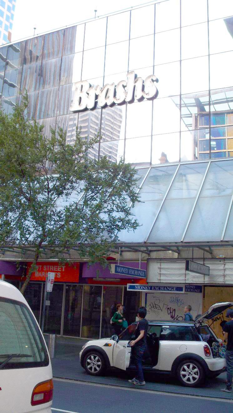 Opened in 1986, this was Brashs Australian flagship store, located on Pitt Street Sydney. It was open until 1998, when it was shut down from administration bankrupt proceedings. New land-lords took the building over in 1999, and then leased it out to a number of market stores. This photo was taken in March 2010, where it sits empty, awaiting to be demolished for new office towers.